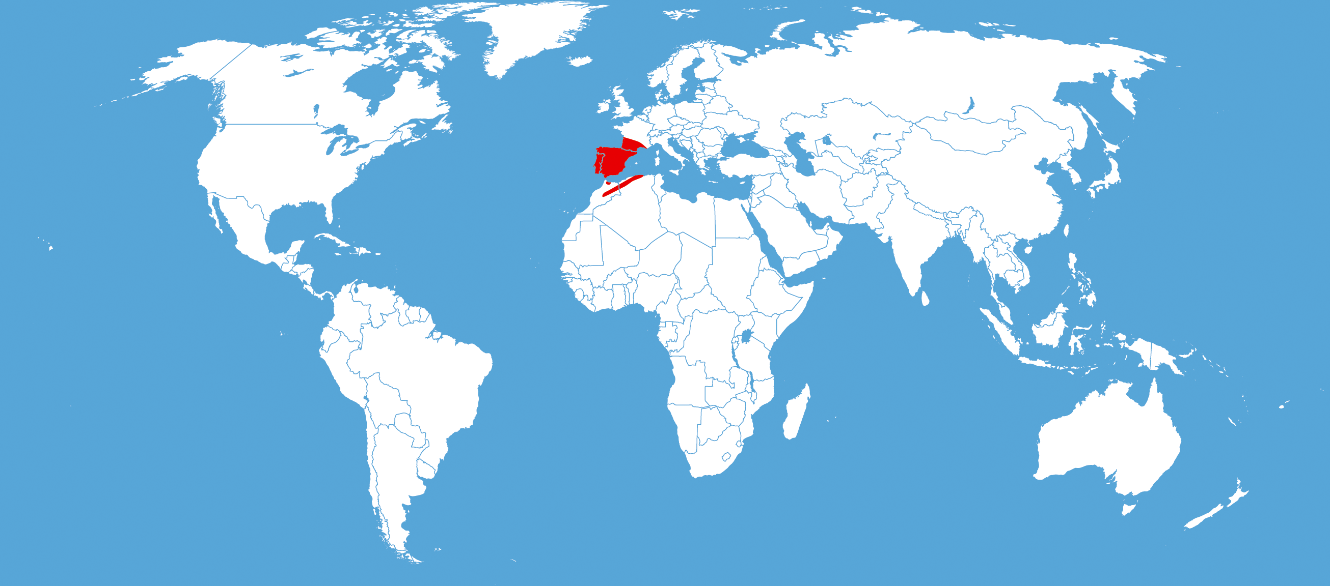 Distribution map of Sphinx maurorum